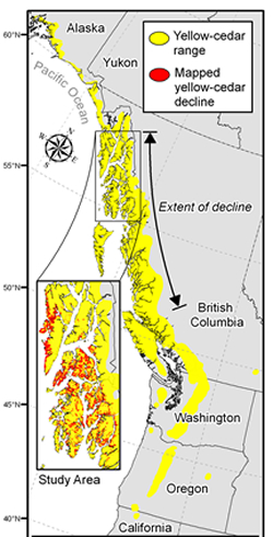 Map showing yellow-cedar range and the areas of decline.